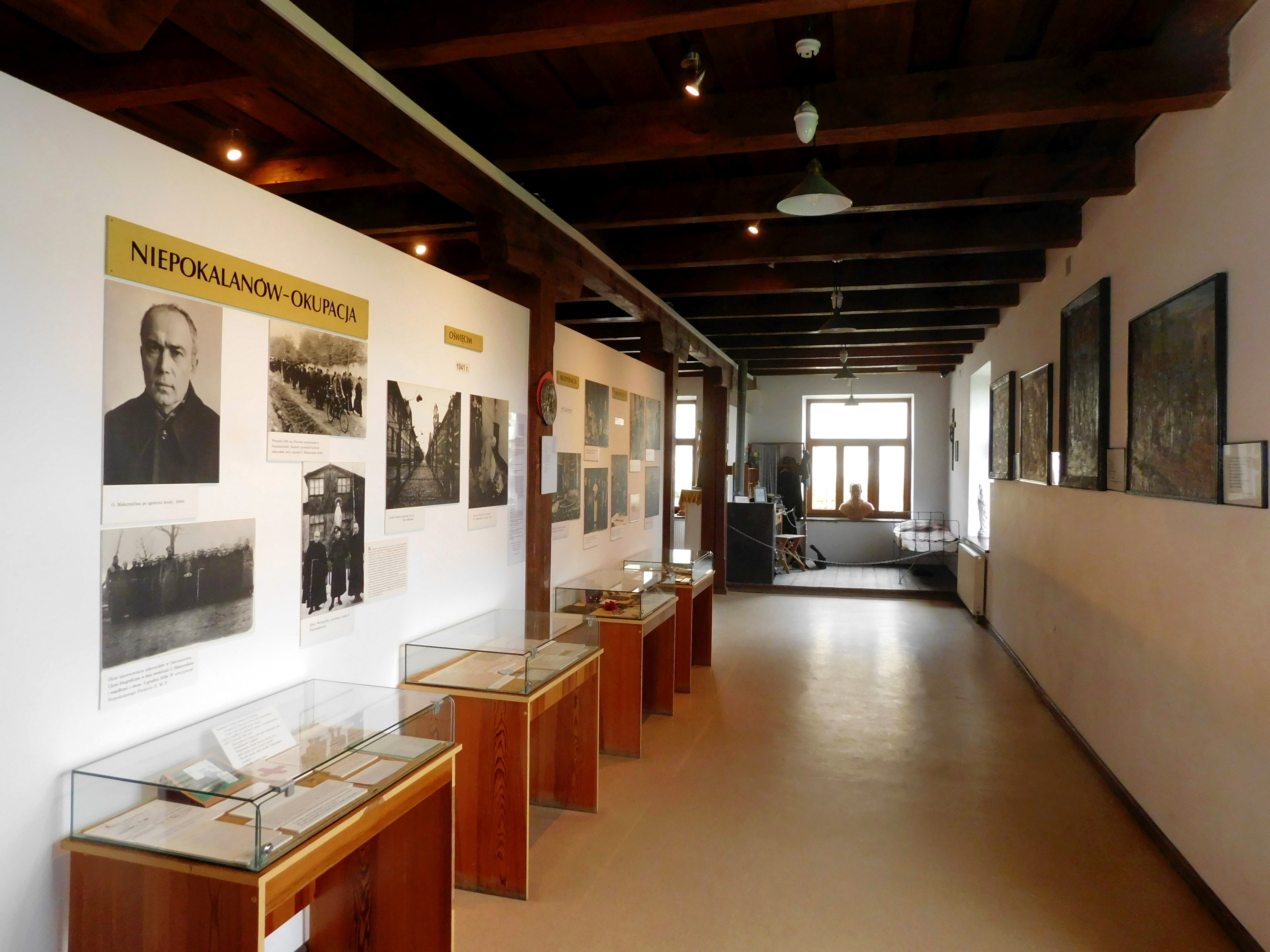 Museum of St. Maximilian Kolbe, opened in 1998 (interior)